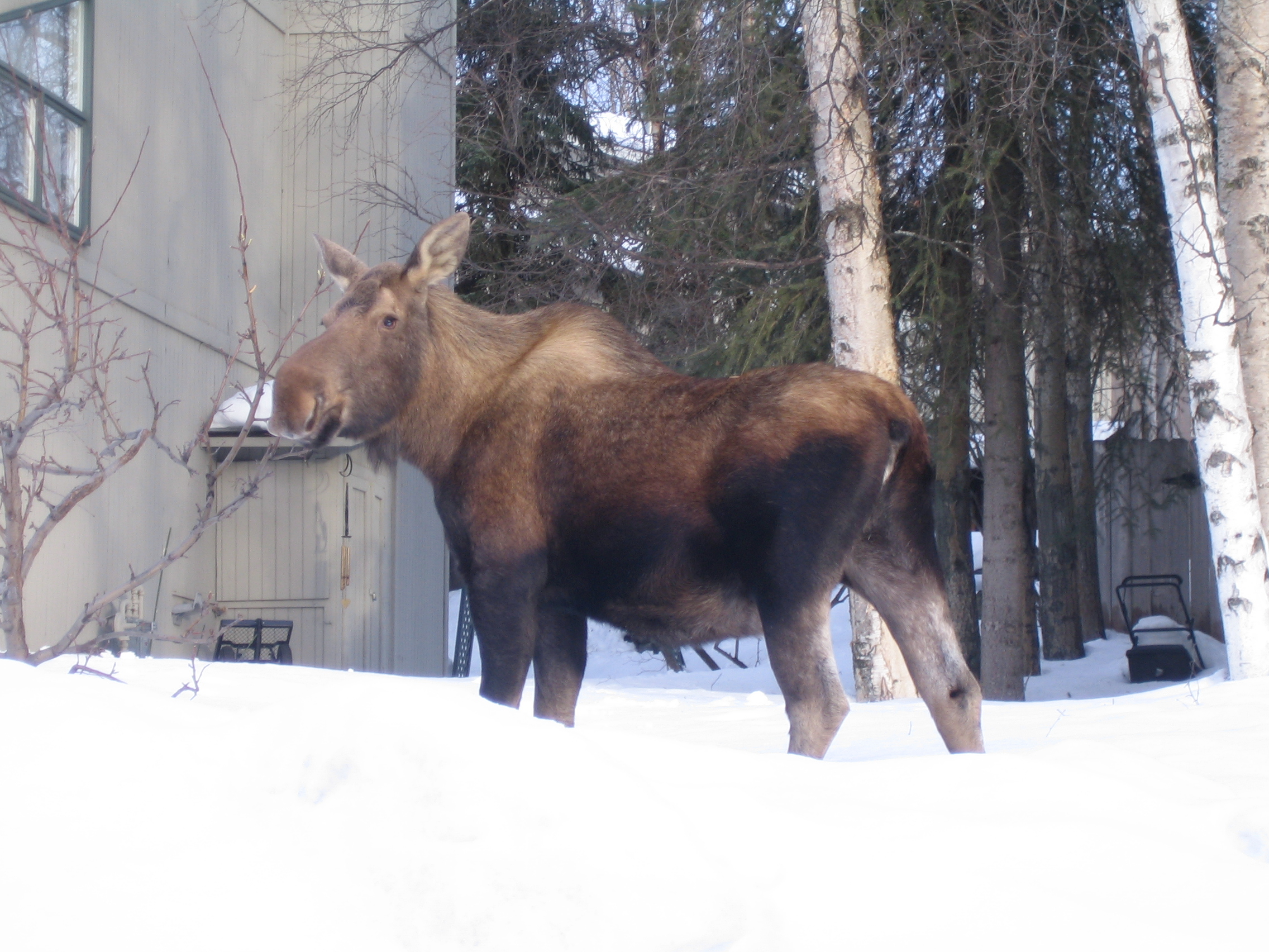 Moose in yard in Anchorage, Alaska